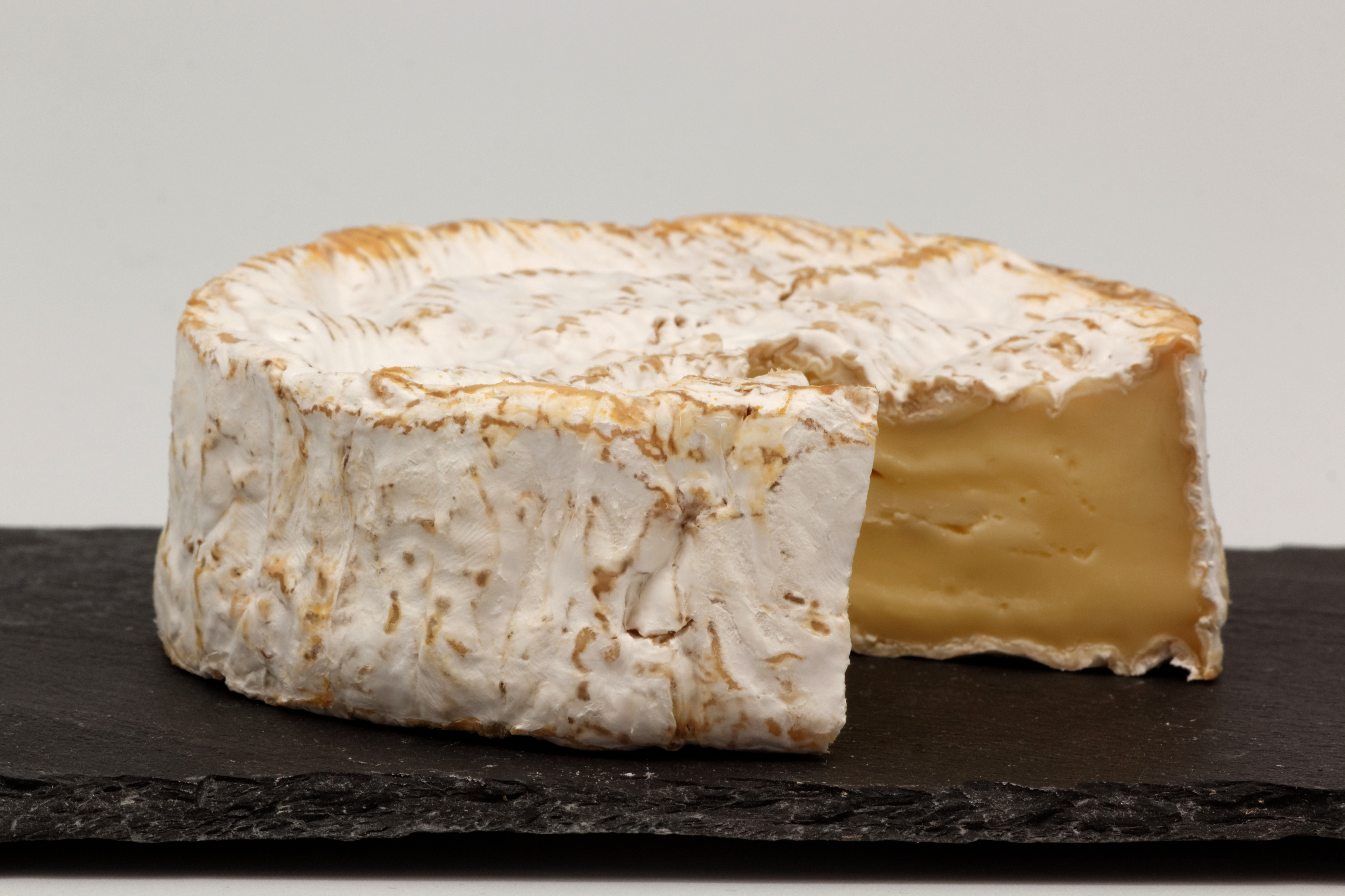 Camembert de Normandie (Protected Designation of Origin)